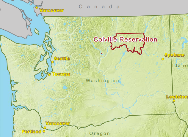 An outline of where Colville Reservation is in Washington.